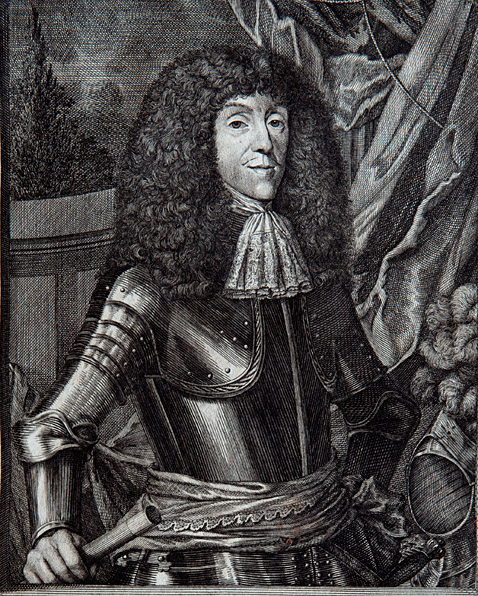 Emanuel von Anhalt-Köthen (1631 - 1670)